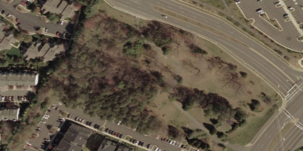 Satellite view of the Ox Hill Battlefield Park, in Fairfax, Virginia, USA. This was the site of the Battle of Chantilly (or Ox Hill) during the American Civil War on September 1, 1862. The park is bounded by Monument Drive on the north side, and West Ox Road (State Route 608) on the east. The Fairfax Towne Center shopping area is to the north, and apartment buildings surround the rest.